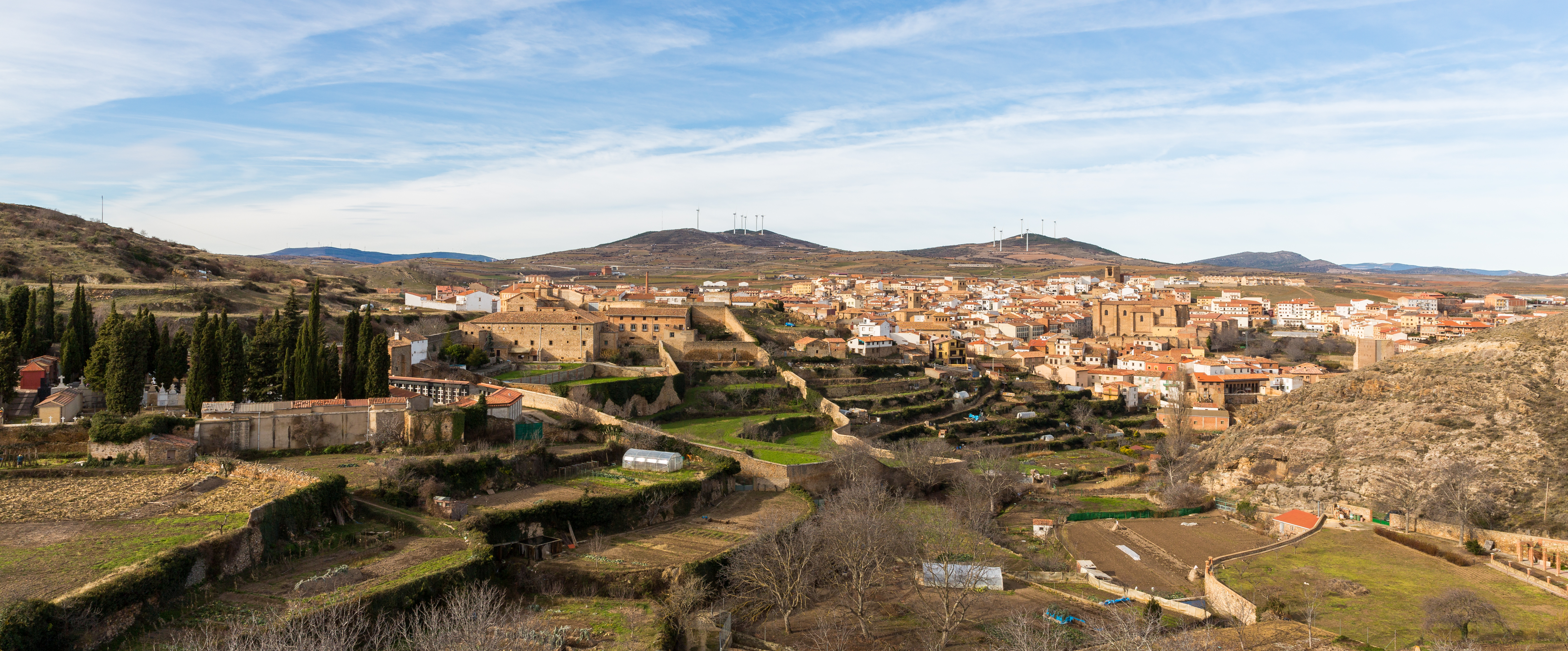 View of the old town of Ágreda, province of Soria Castile and León, Spain. Ágreda was a significant town in the Middle Age as strategic border location between the kingdoms of Castile, Aragon and Navarre. The town has a very diverse monumental heritage as it was an important center of the arts and handcrafts where Christians, Jews and Arab-descendants lived in peace. Ágreda is also known as "The Town of the Three Cultures".